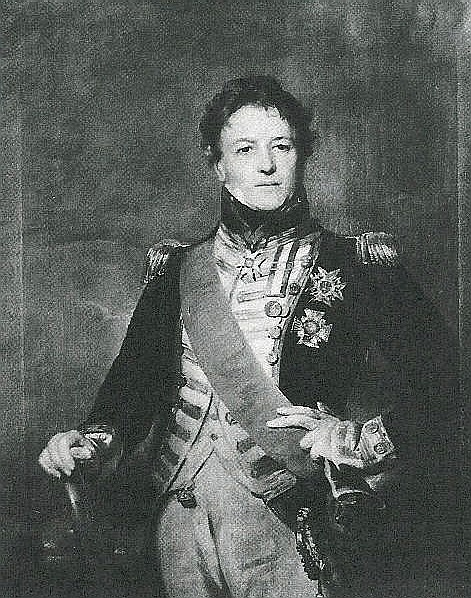 Sir Philip Charles Durham as a Vice Admiral (about 1820)